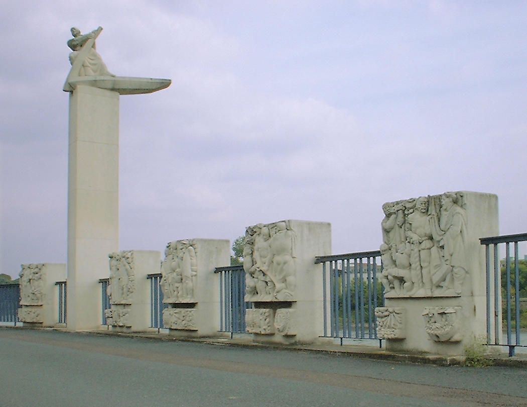 Sculpture in Magdeburg in Saxony-Anhalt, Germany